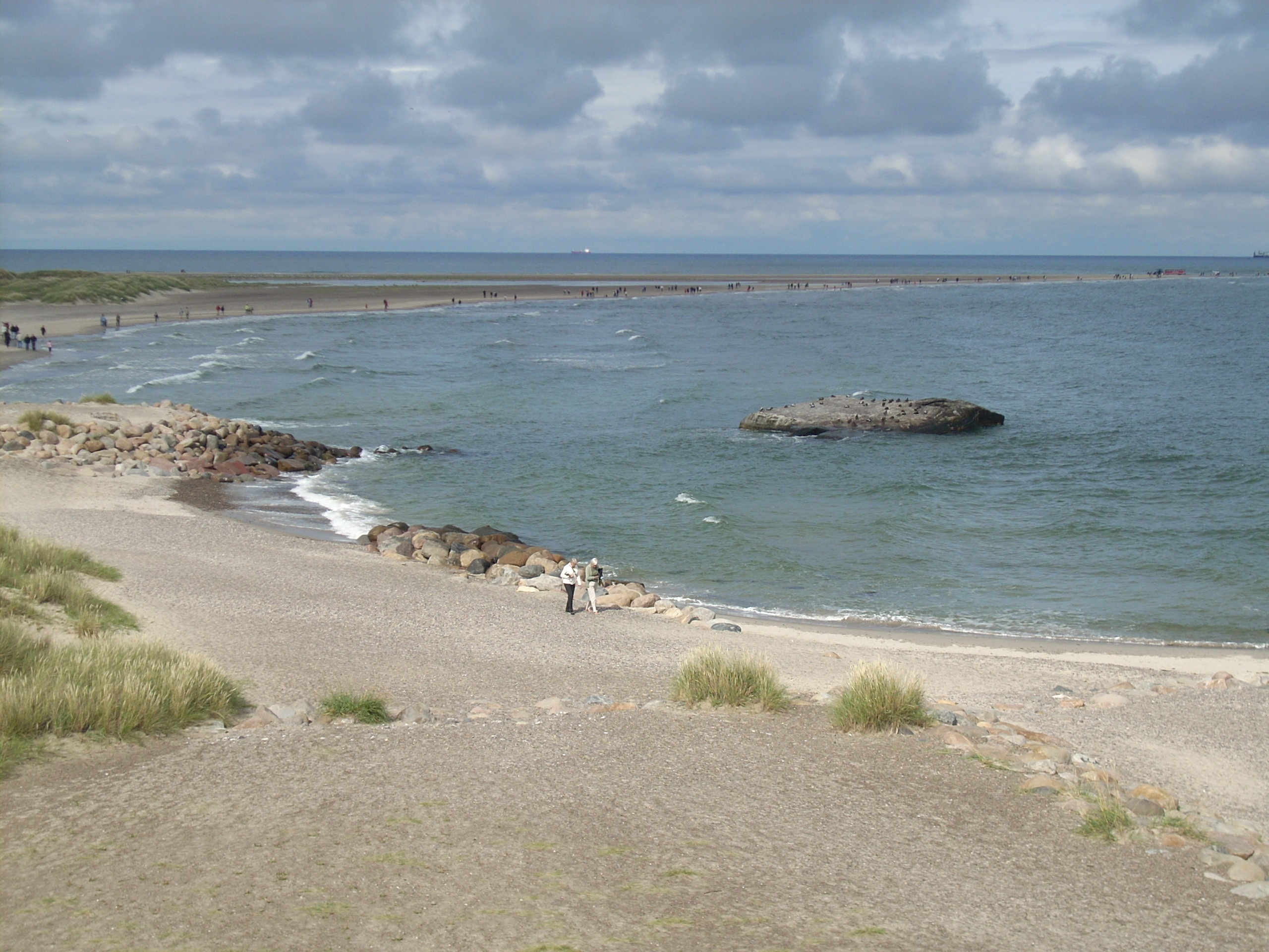 Grenen, the northernmost point in Denmark